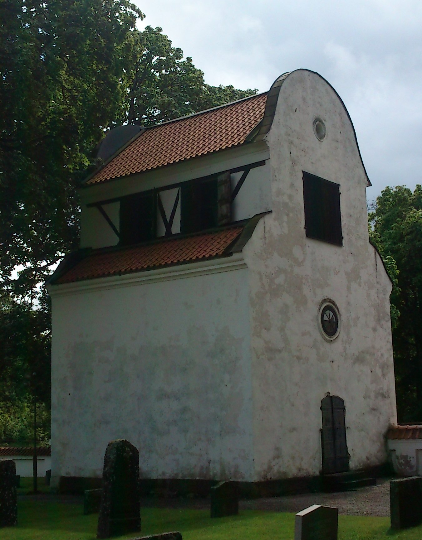 Belltower outside Östra Vingåker church, diocese of Strängnäs